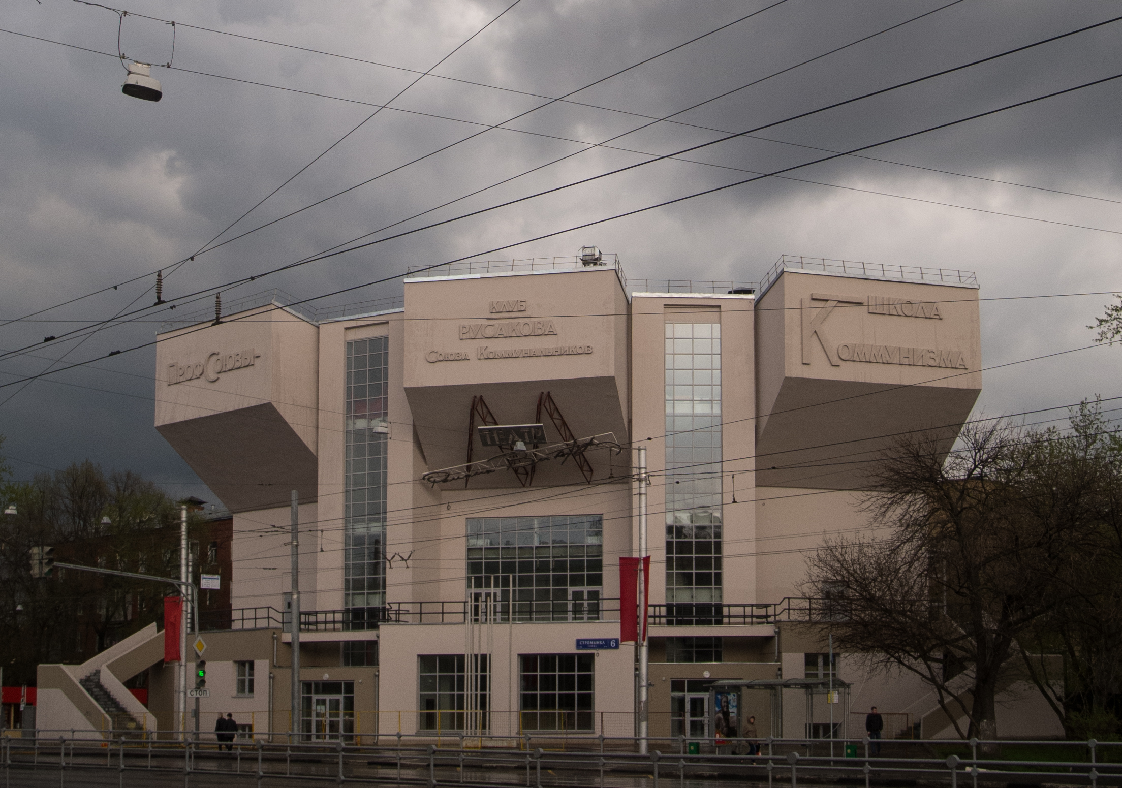 Restored facade of the Rusakov Workers' Club with the slogan "Trade Unions are the School of Communism"